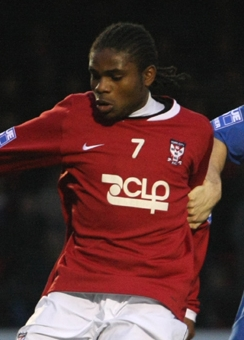 Onome Sodje playing for York City against Droylsden at Bootham Crescent, York on 26 December 2007